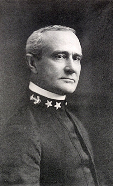 Service photo of United States Navy Rear Admiral Raymond P. Rodgers (1849-1925)